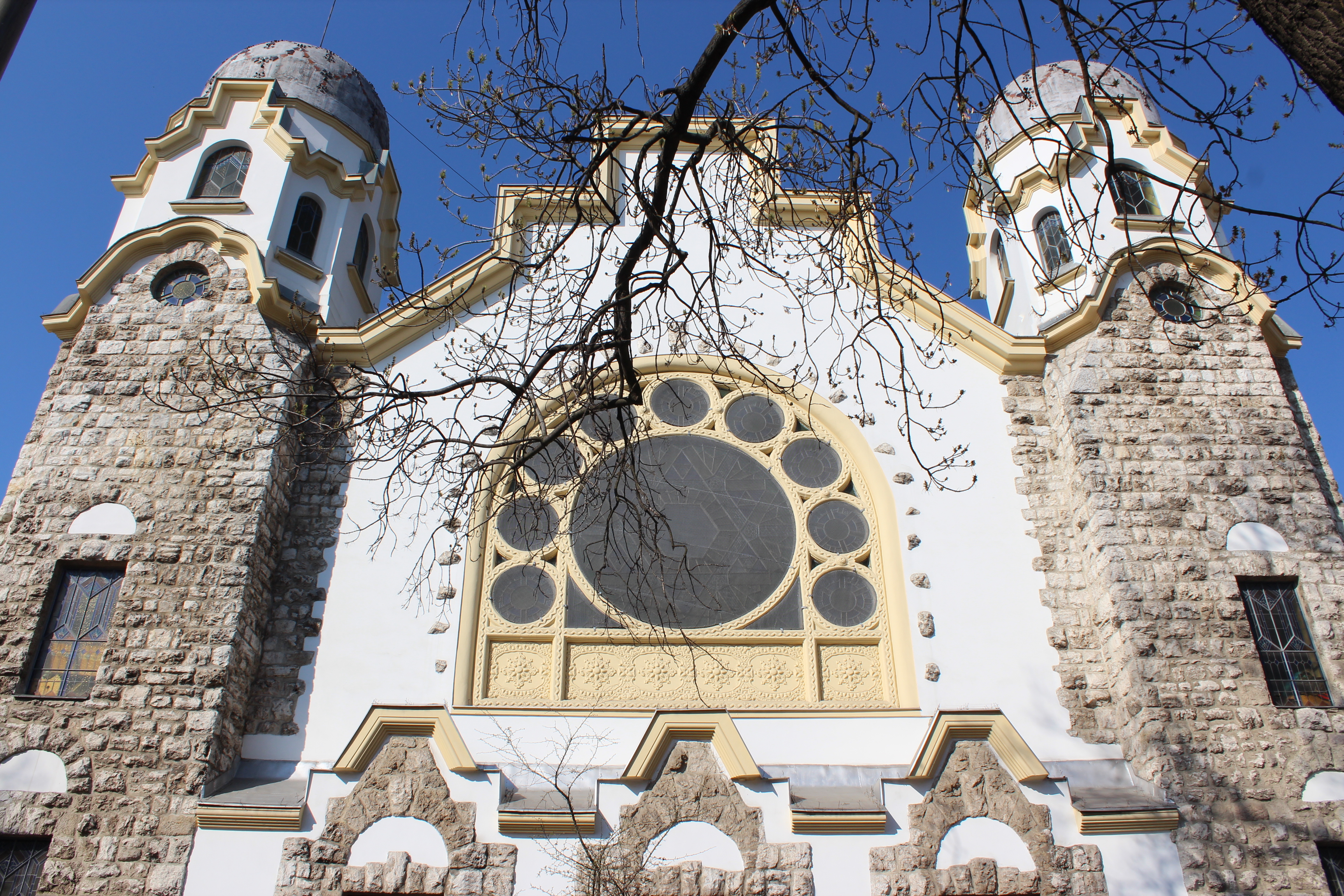 Everyone's church (former synagogue) in Román street, Budapest District X